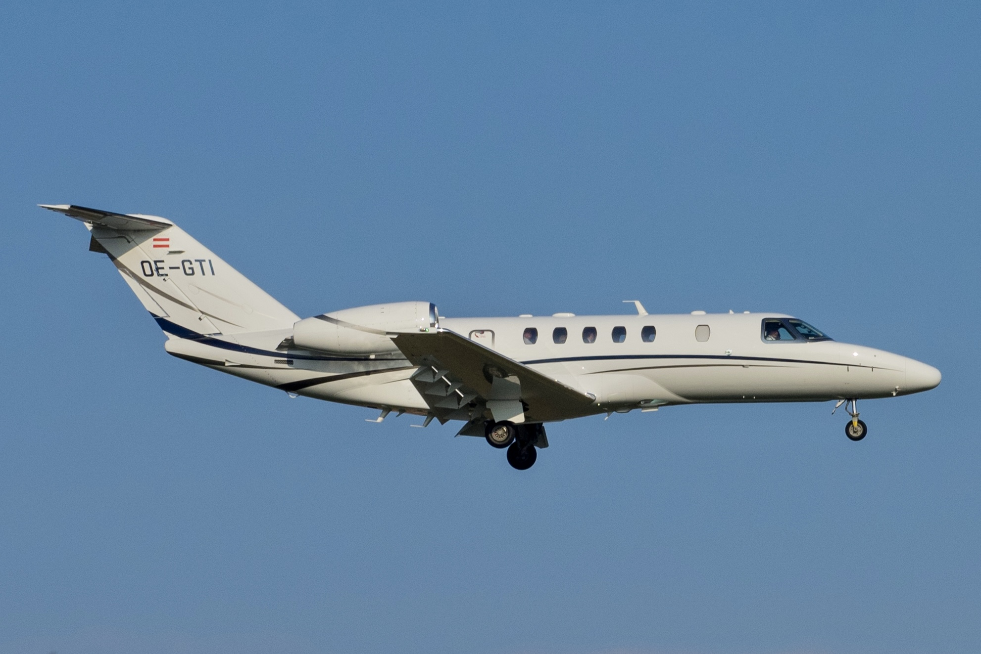 Geneva International Airport